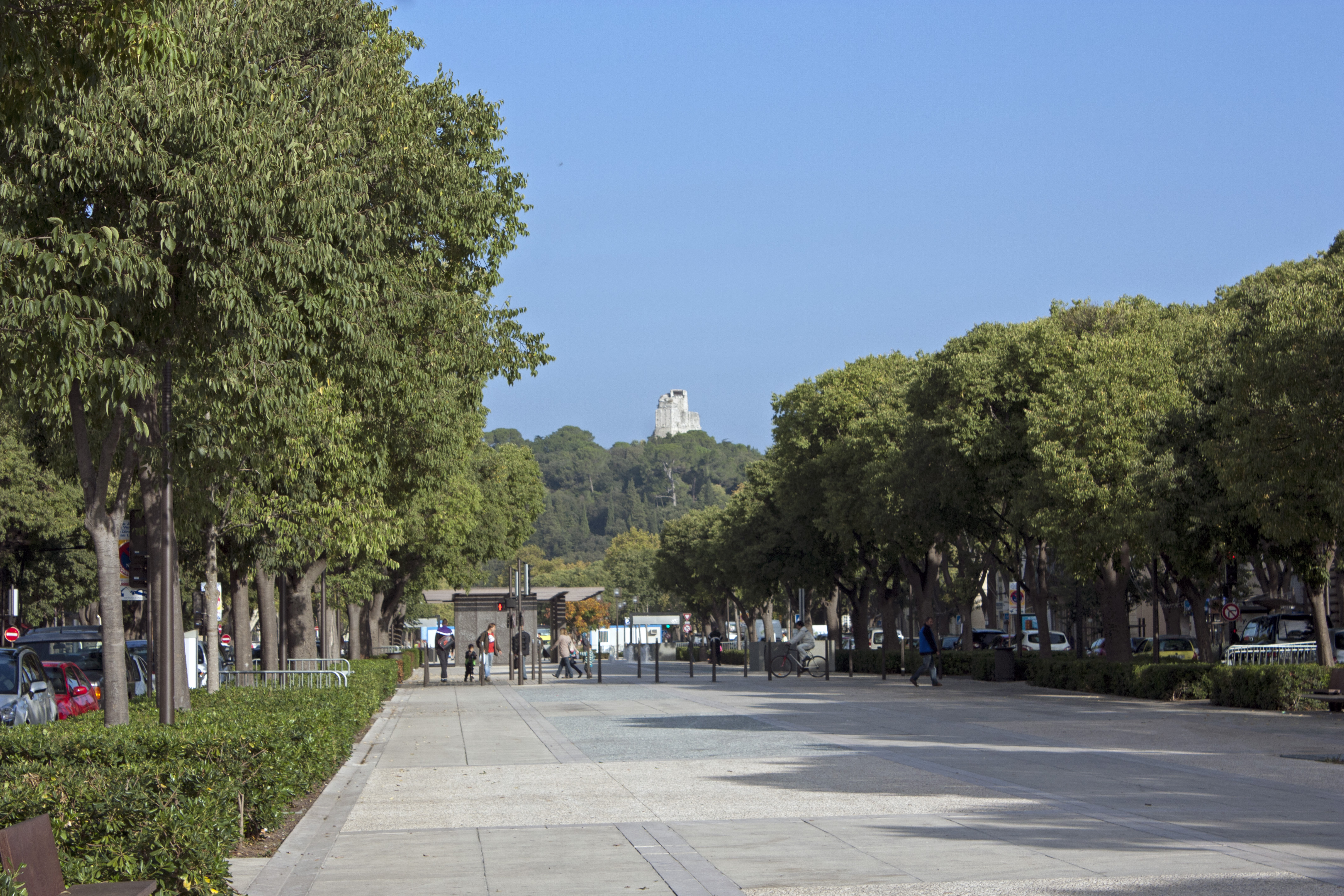 The Allées Jean Jaurès, in alignment with the Gardens of the Spring dominated by the Magnea Tower.